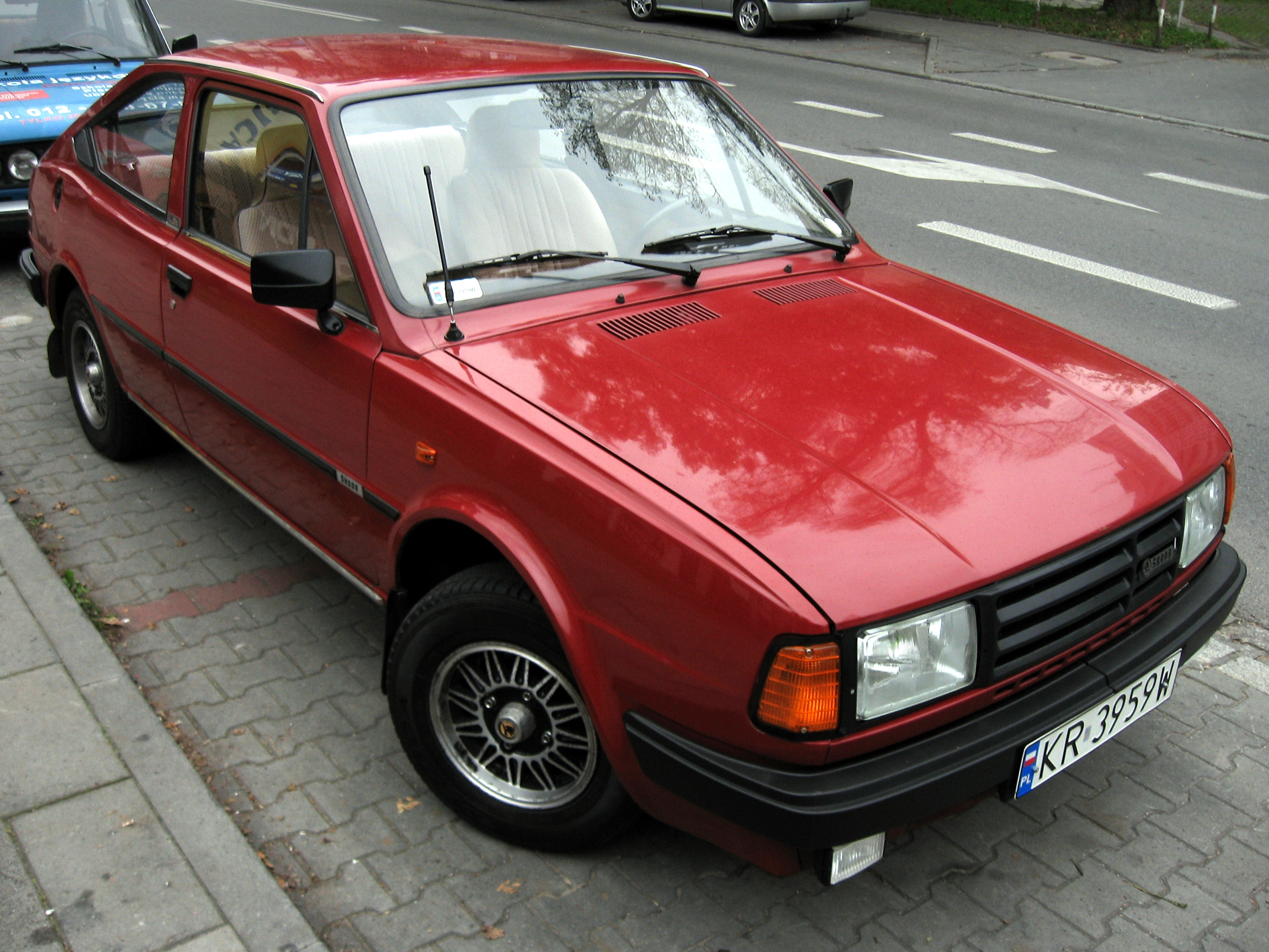 Škoda Rapid 136 5 speed in Kraków.